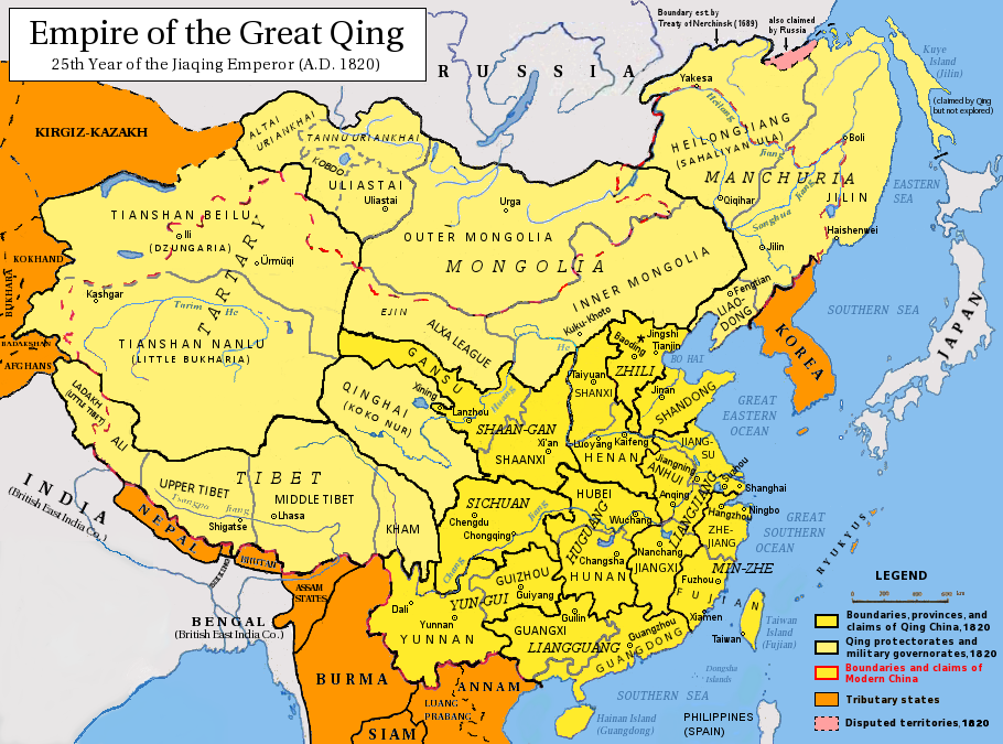 Map of the Qing Dynasty in 1820. (Includes provincial boundaries and the boundaries of modern China for reference.) Provinces in yellow, military governorates and protectorates in light yellow, tributary states in orange. Adapted from File:ROC_PRC_comparison_eng.jpg and information complied from: File:China_and_Japan,_John_Nicaragua_Dower_(1844).jpg File:Carte_generale_de_l'Empire_Chinois_et_du_Japon_(1836).jpg File:Empire_Chinois,_Japon_(1832).jpg File:L'Empire_Chinois_et_du_Japon_(1833).jpg